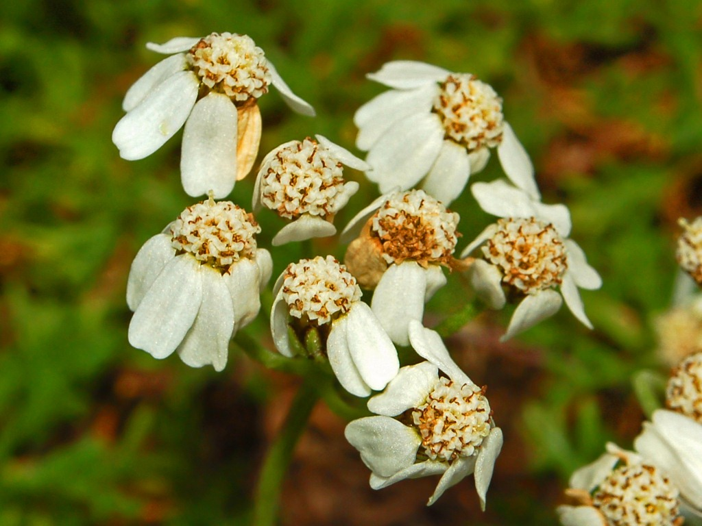 Achillea erba-rotta - Col du Lautaret, France